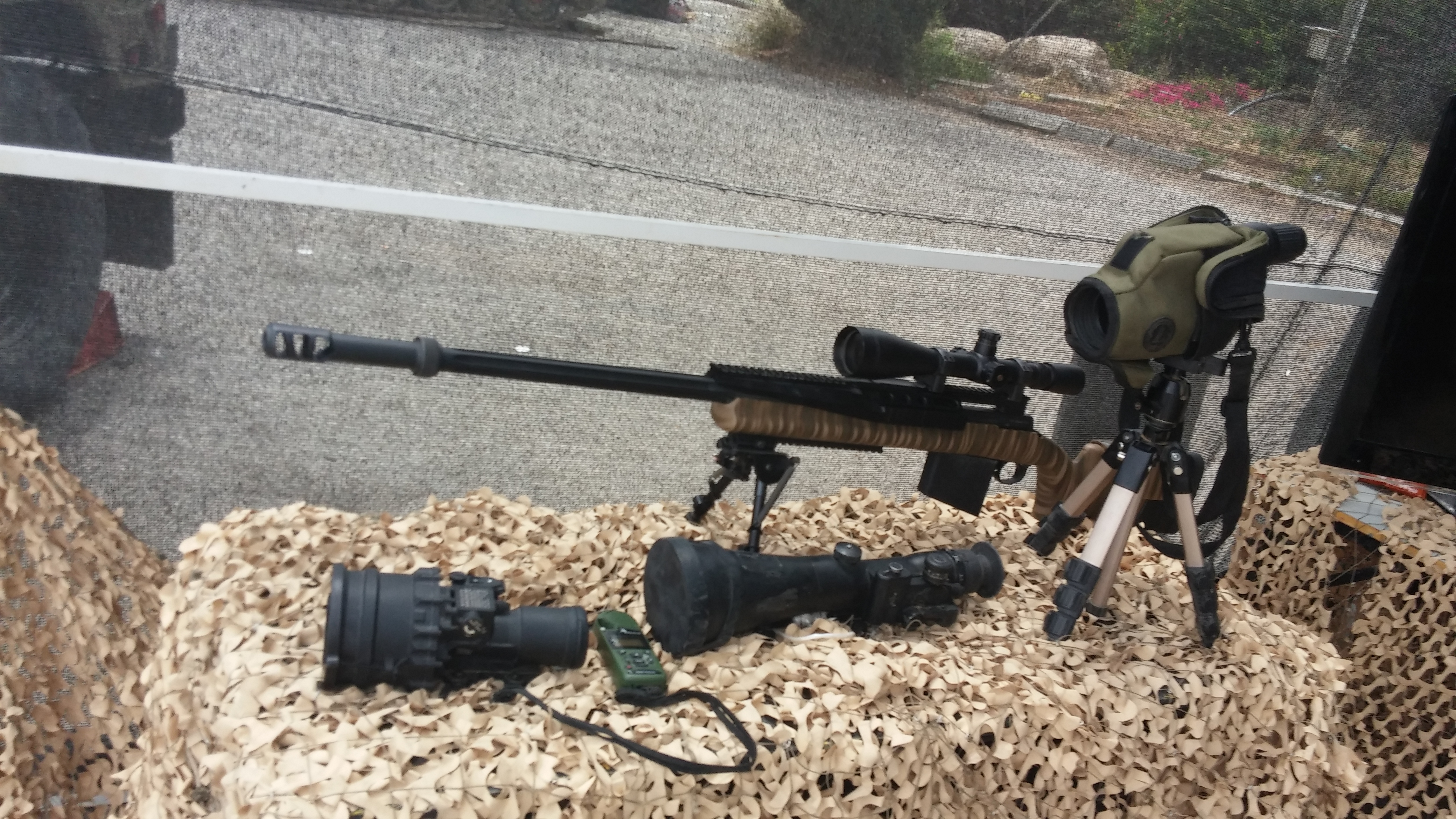 2000 HTR sniper rifle, on IDF exhibition in Latrun